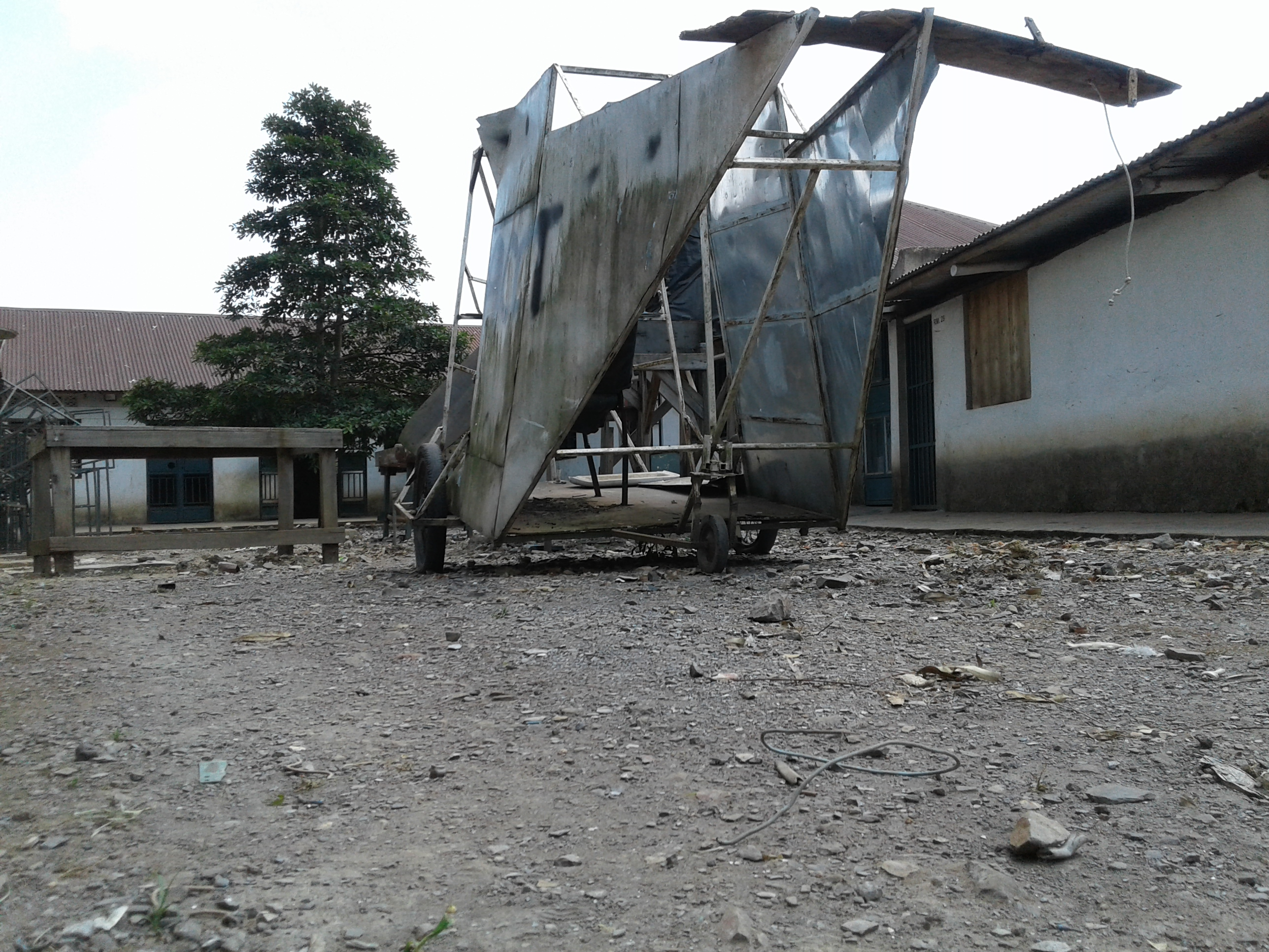 ACCT AEROPLANE WAS MADE BY ACCT ENGINEERS GUIDED BY A LECTURER CALLED KAMBAYAYI